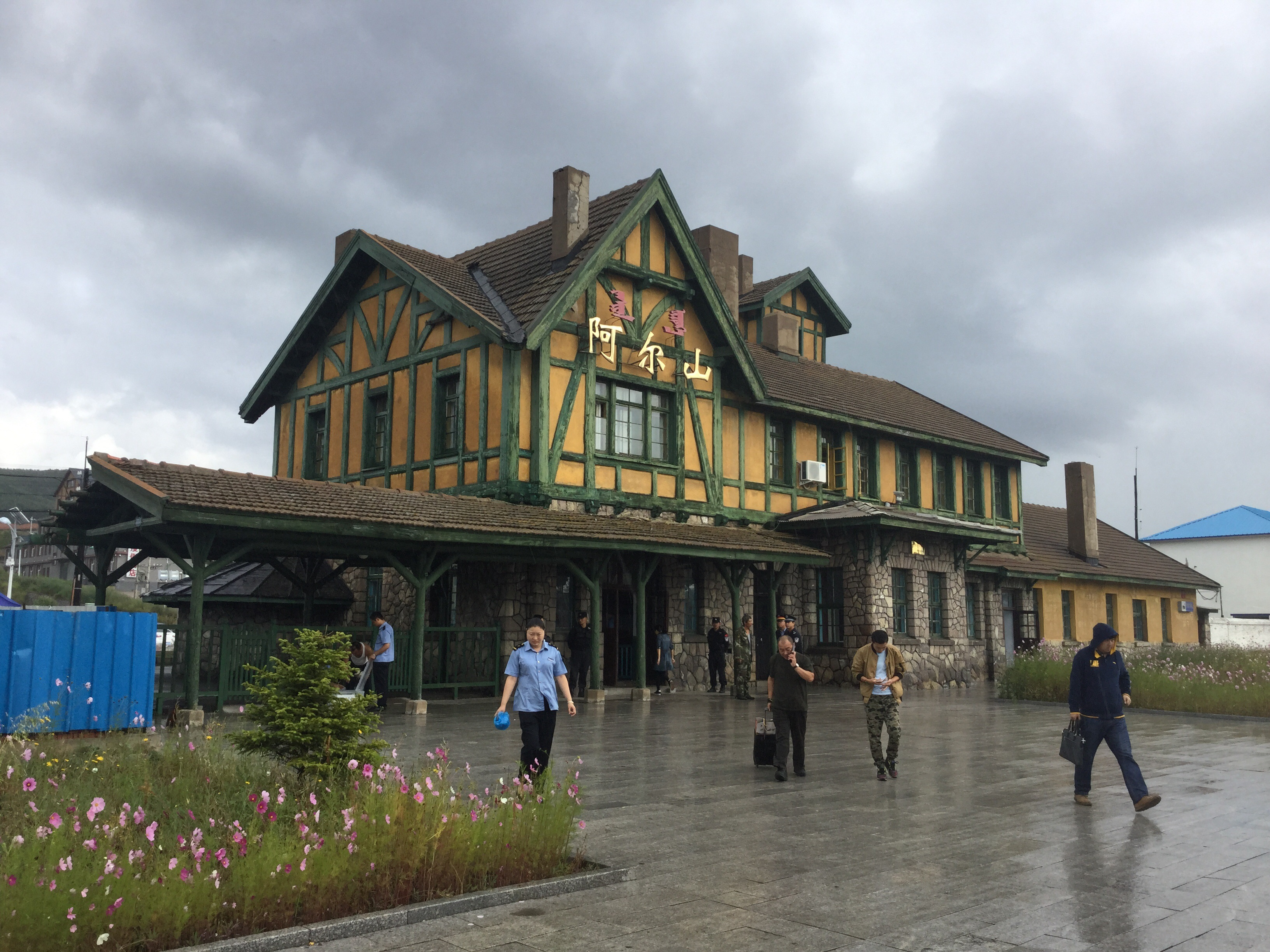 Arxan station, take from northwest.